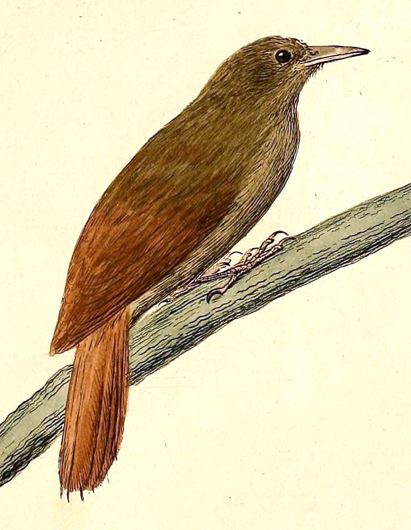 « Dendrocolaptes turdinus » = Dendrocincla turdina (Plain-winged Woodcreeper)